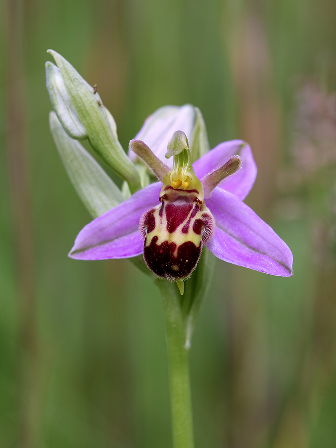 Ophrys apifera - Pitstone, Buckinghamshire, 14/05/2016